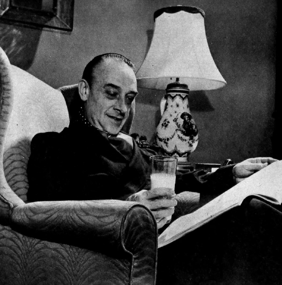 Photo of announcer Frank Gallop at home.